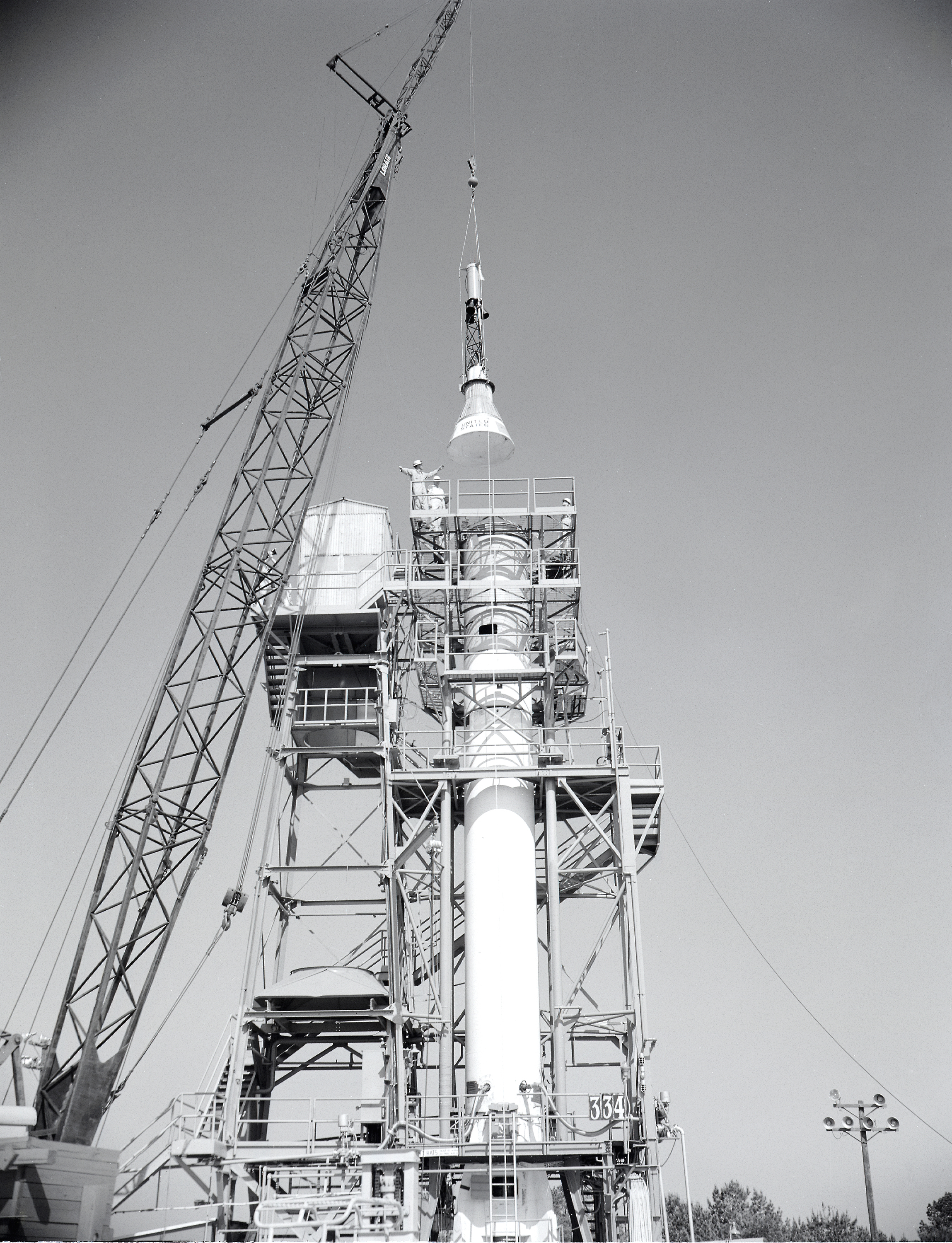 Installation of a Mercury capsule on a Mercury-Redstone booster at the Redstone Test Stand. Assembled at the Marshall Space Flight Center (MSFC), the Mercury-Redstone launch vehicle was designed to place a manned space capsule into a sub-orbital flight.